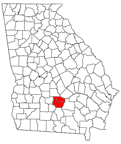 Locator map of the Fitzgerald Micropolitan Statistical Area in the southern part of the U.S. state of Georgia.